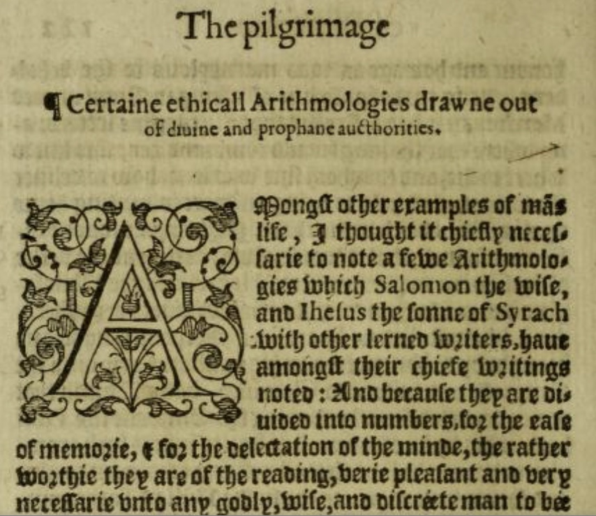 The pilgrimage of princes, penned out of sundry Greeke and Latine aucthours[